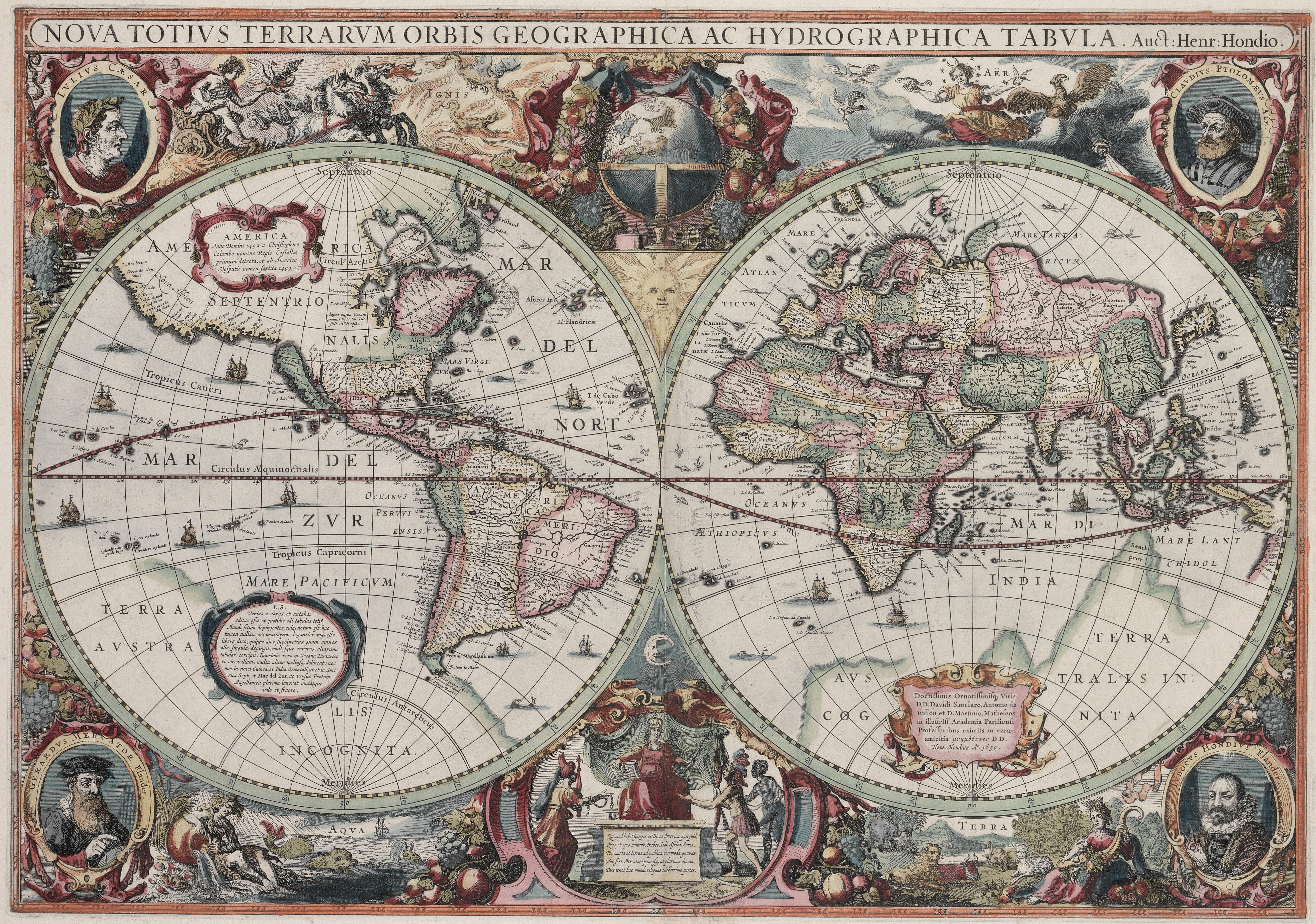 This is an image of Nova totius Terrarum Orbis geographica ac hydrographica tabula, a map of the world created by Hendrik Hondius in 1630, and published the following year in the atlas Atlantis Maioris Appendix. Among its claims to notability is the fact that it was the first dated map published in an atlas, and therefore the first widely available map, to show any part of Australia, the only previous map to do so being Hessel Gerritsz' 1627 Caert van't Landt van d'Eendracht ("Chart of the Land of Eendracht"), which was not widely distributed. The Australian coastline shown is part of the west coast of Cape York Peninsula, discovered by Jan Carstensz in 1623. Curiously, the map does not show the west coast features shown in Gerritsz' Caert.